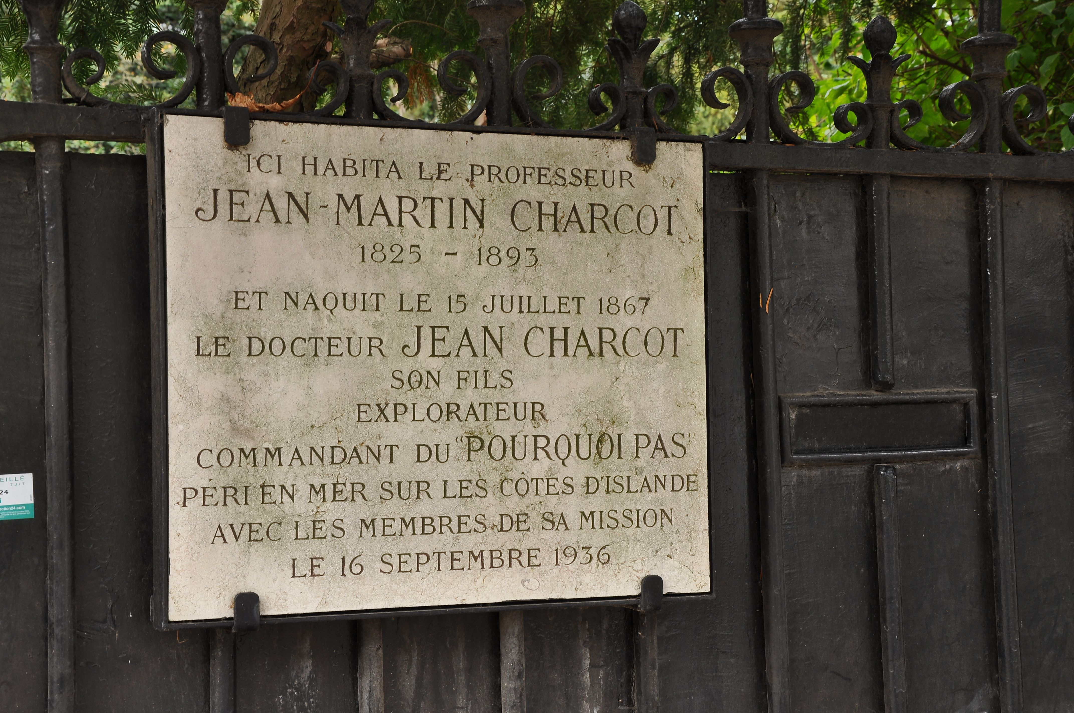 Commandant's Charcot House at Neuilly-sur-Seine, France